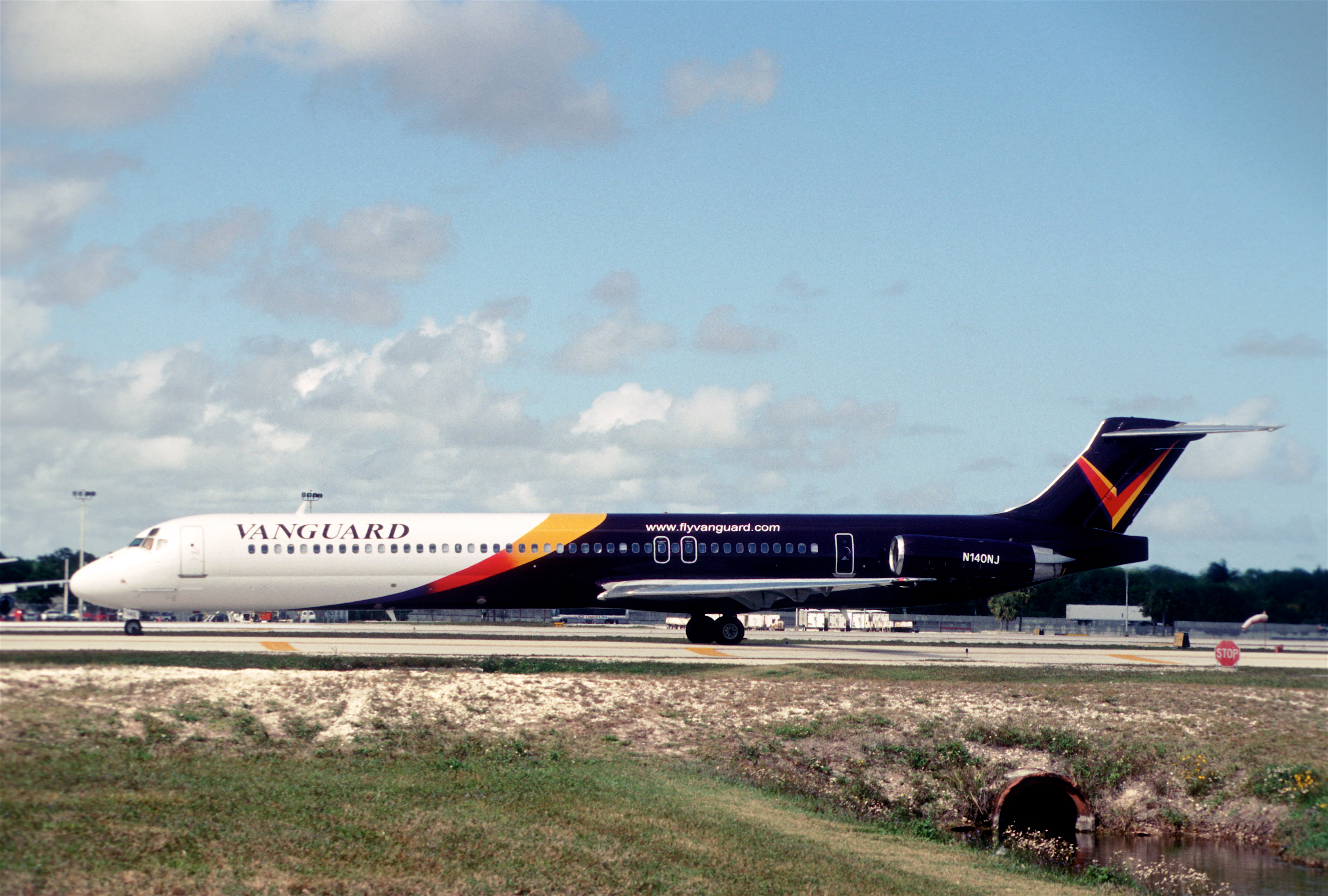 Vanguard Airlines MD-82; N140NJ@FLL, April 2002